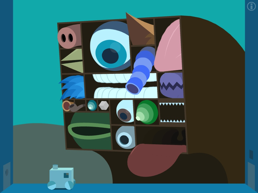 Windosill screenshot